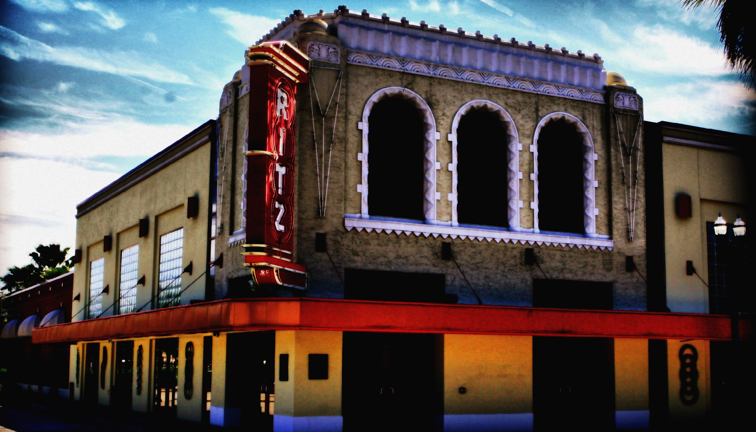 The famous Ritz Theatre, Jacksonville, Florida.